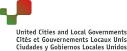 UCLG logo